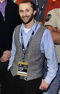 Game developer Danny Ledonne; cropped from source image (listed below)